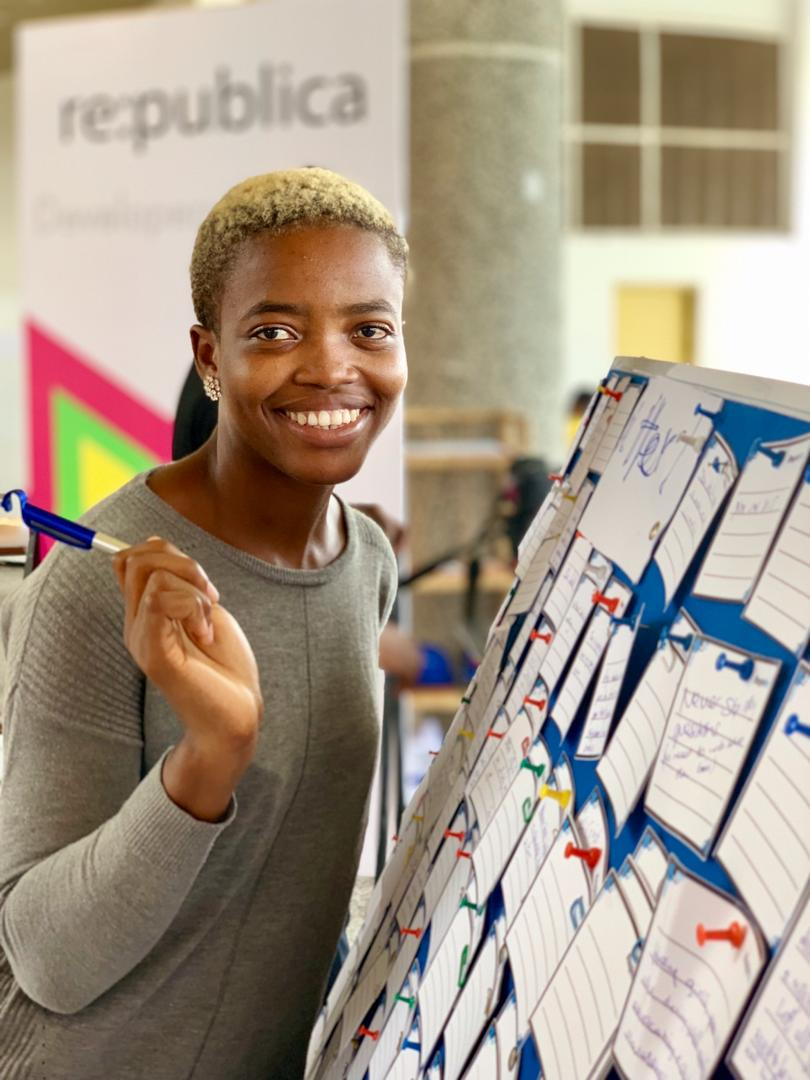 An image of Ivy Barley representing Developers In Vogue at rePublica 2018.